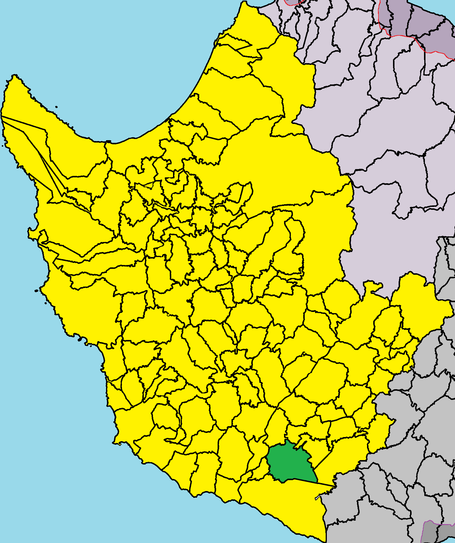 Souskiou in Paphos District.